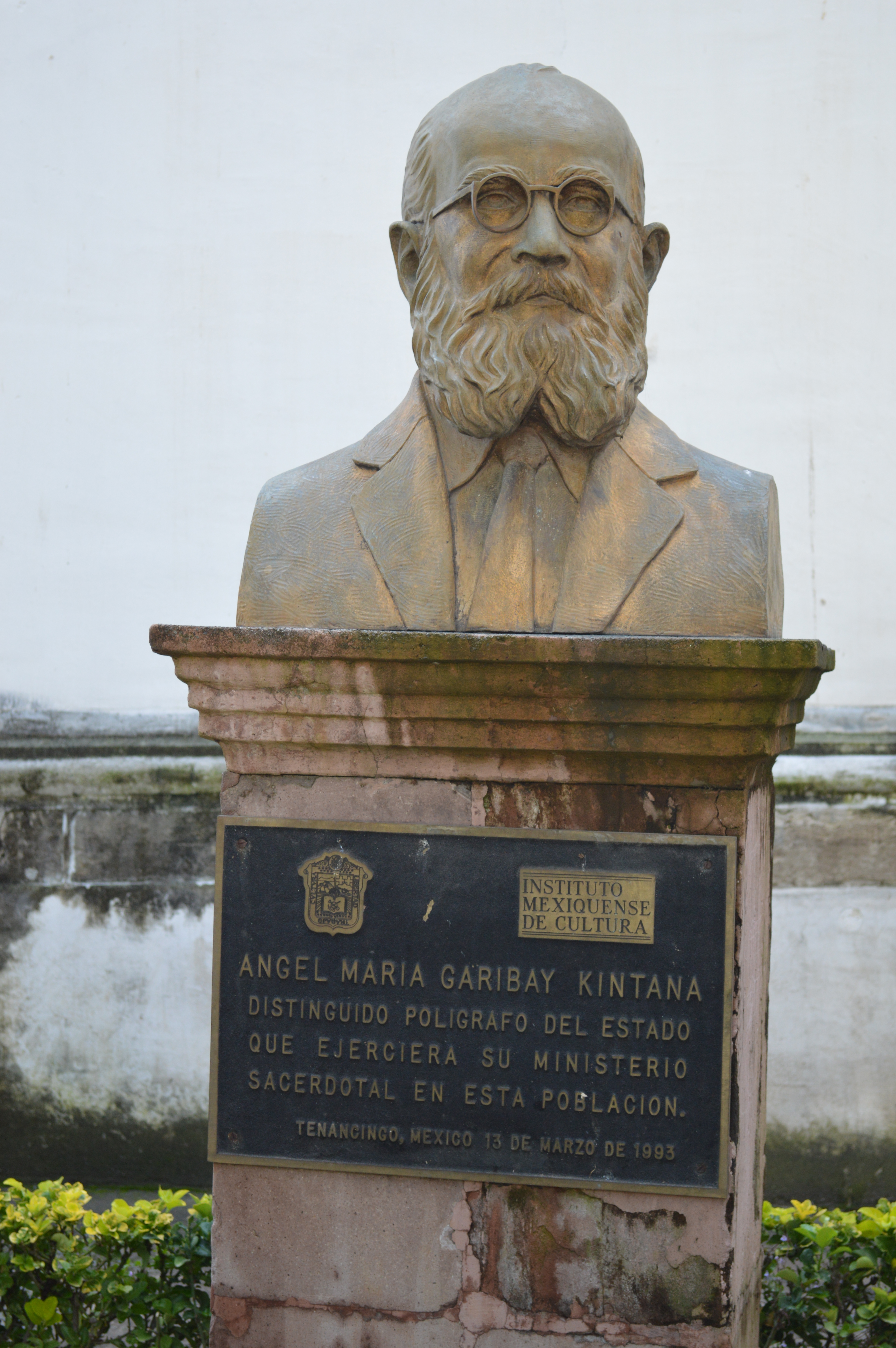 Bust of Angel Maria Garibay Kintana at the atrium of the Francis of Assisi parish in Tenancingo, Mexico State, Mexico